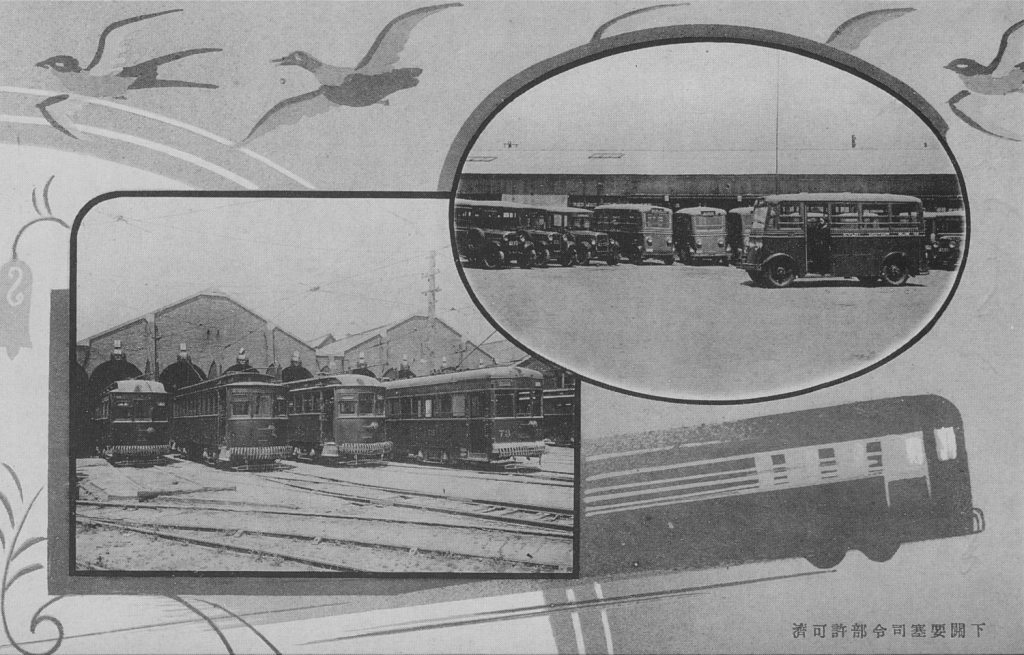 Postcard showing trains and buses operated by the Kyushu Electric Railway Company